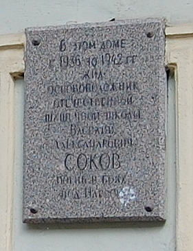 Sokov V.A. Plaque in Saint Petersburg